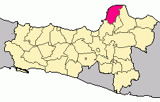 Jepara county in Central Java province, Indonesia